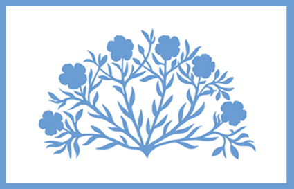 flag of Northern Ireland (assembly). Flax - potential NI logo